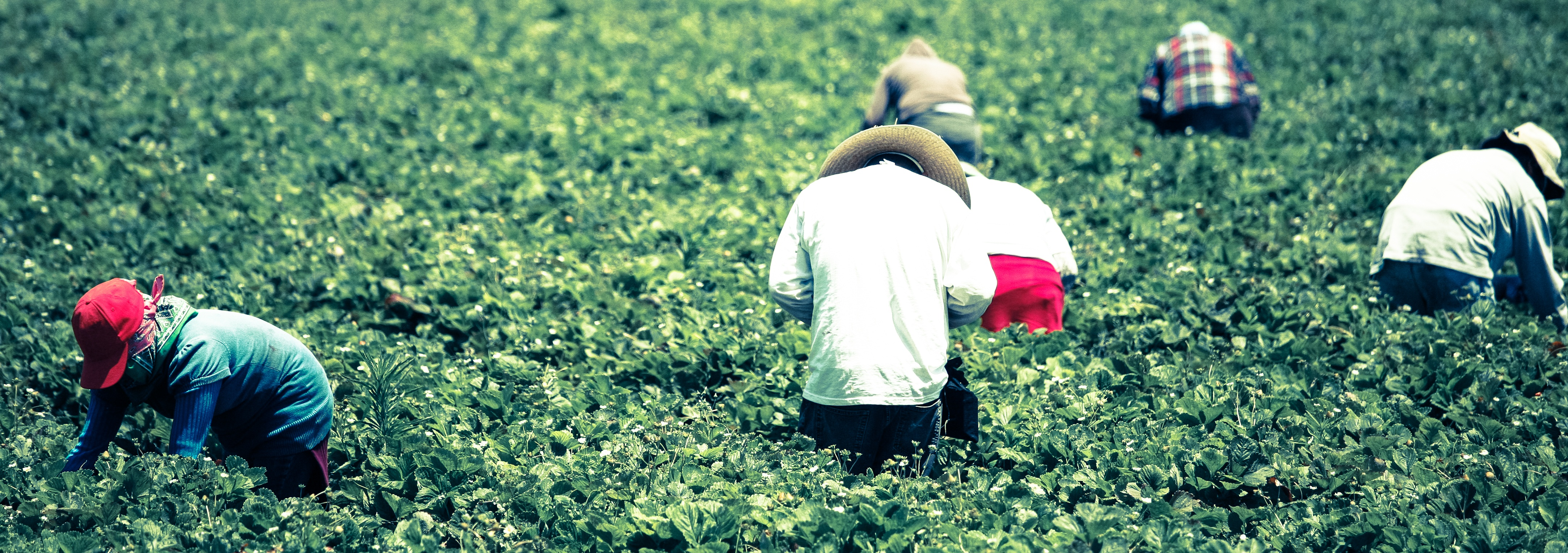 Fruit Picking, Oxnard California